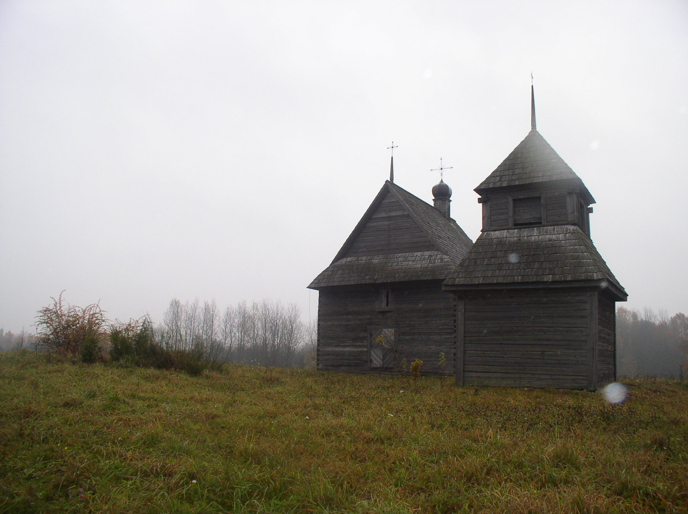 Church from Vyalets, Hlybokaye district. State museum of folk architecture and life, Belarus.